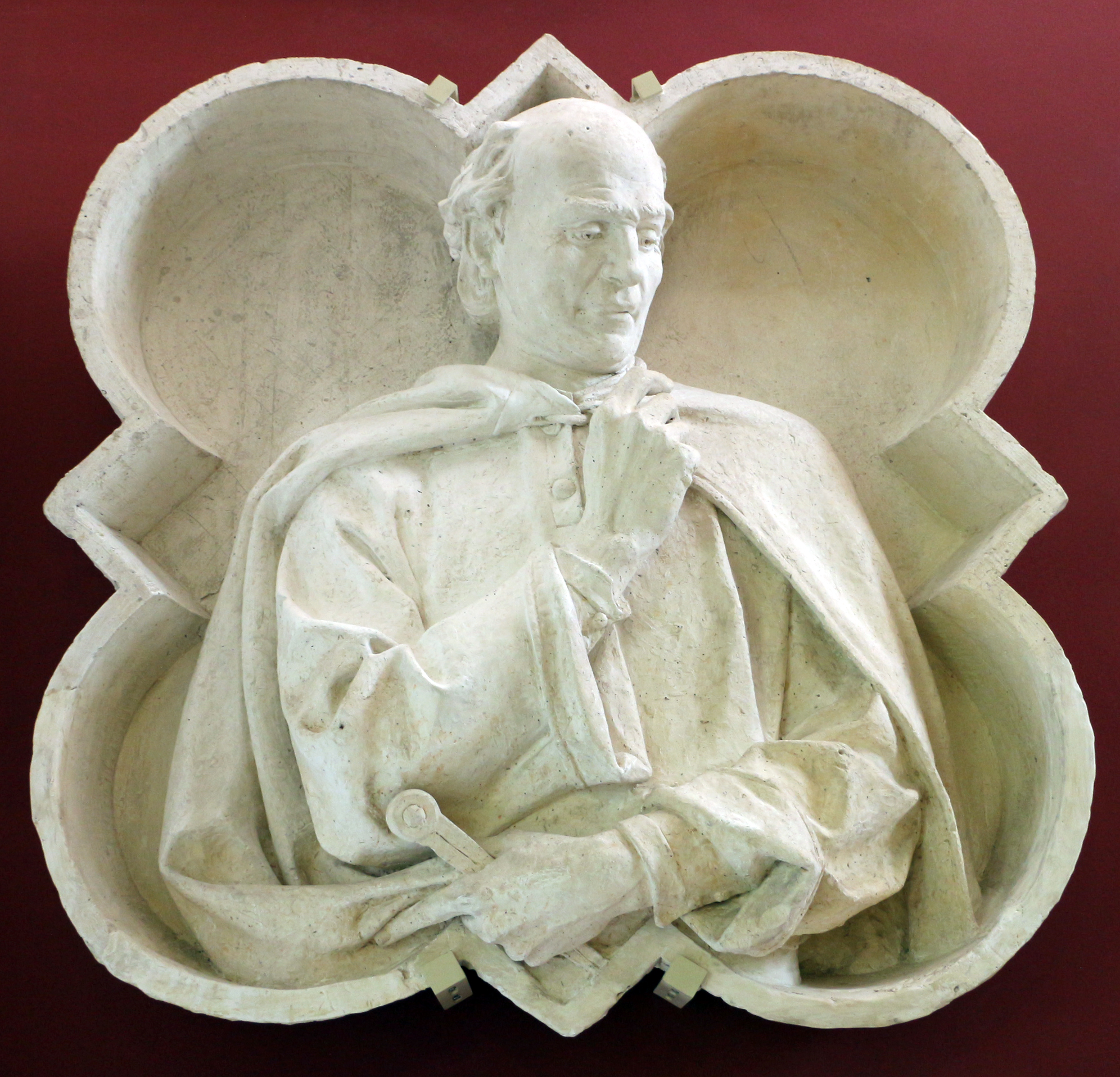 Museo dell'Opera del Duomo (Florence)